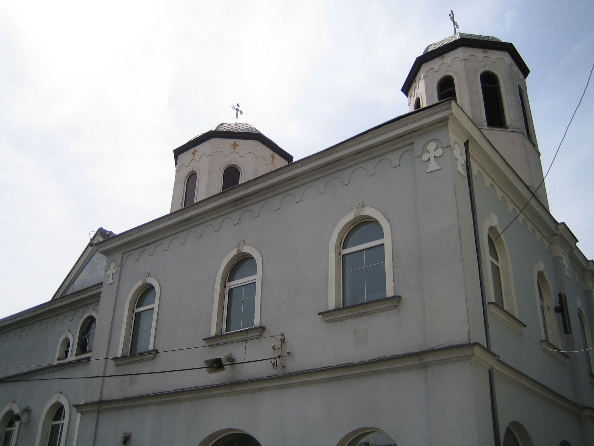 St. George's Church (Čair)